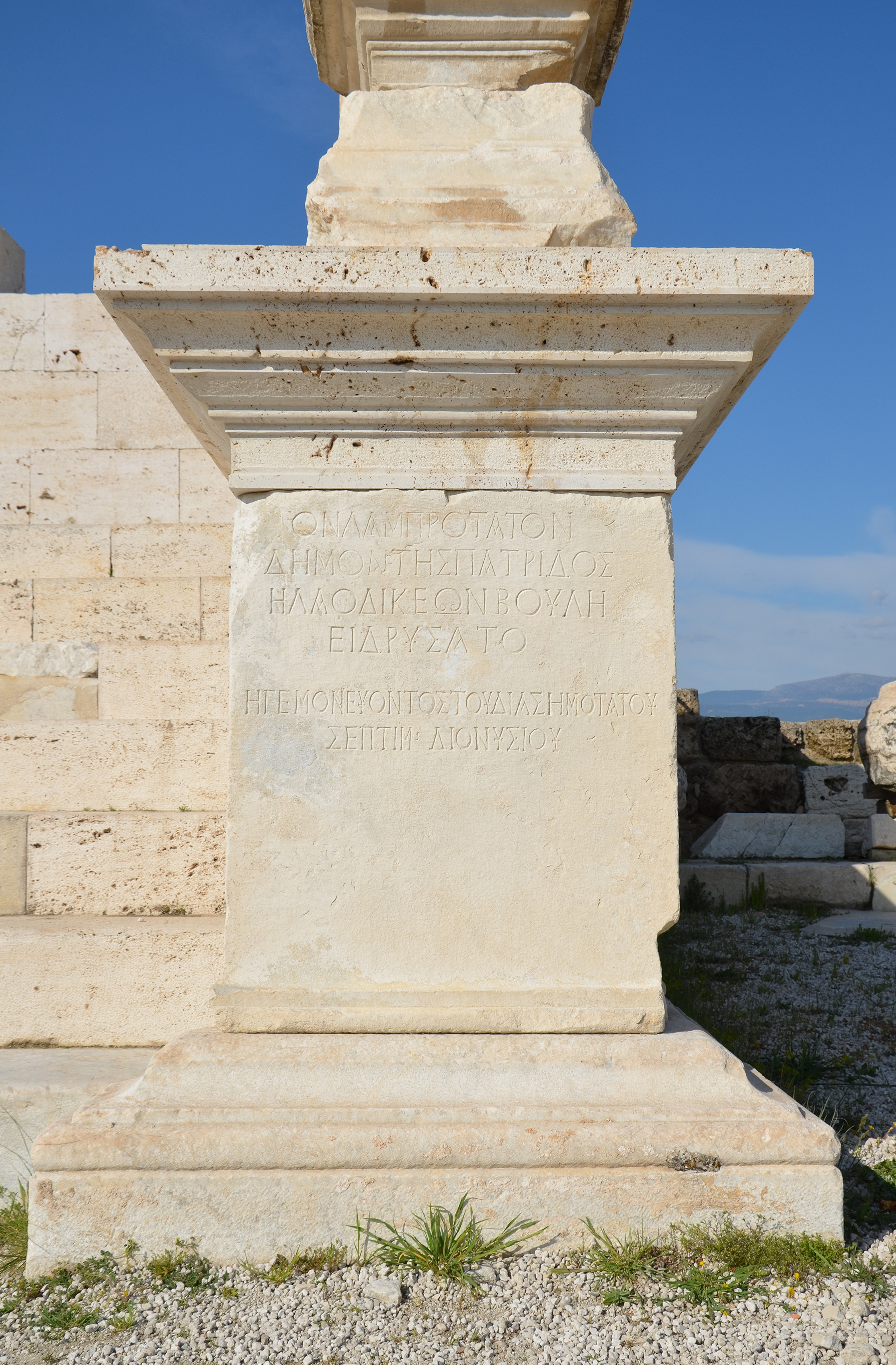 Laodicea on the Lycus, Phrygia, Turkey